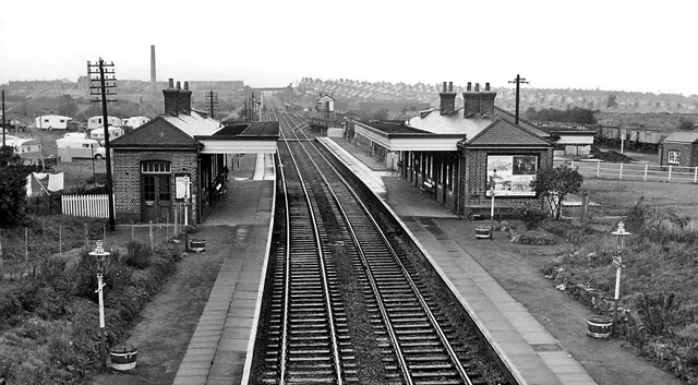 Bedworth Station. View northward, towards Nuneaton; Coventry - Nuneaton (Trent Valley) line. Station closed 18/1/65 when passenger service withdrawn. Line remained and passengers services were reinstated in 5/87, but Bedworth station was not opened until 10/5/88.